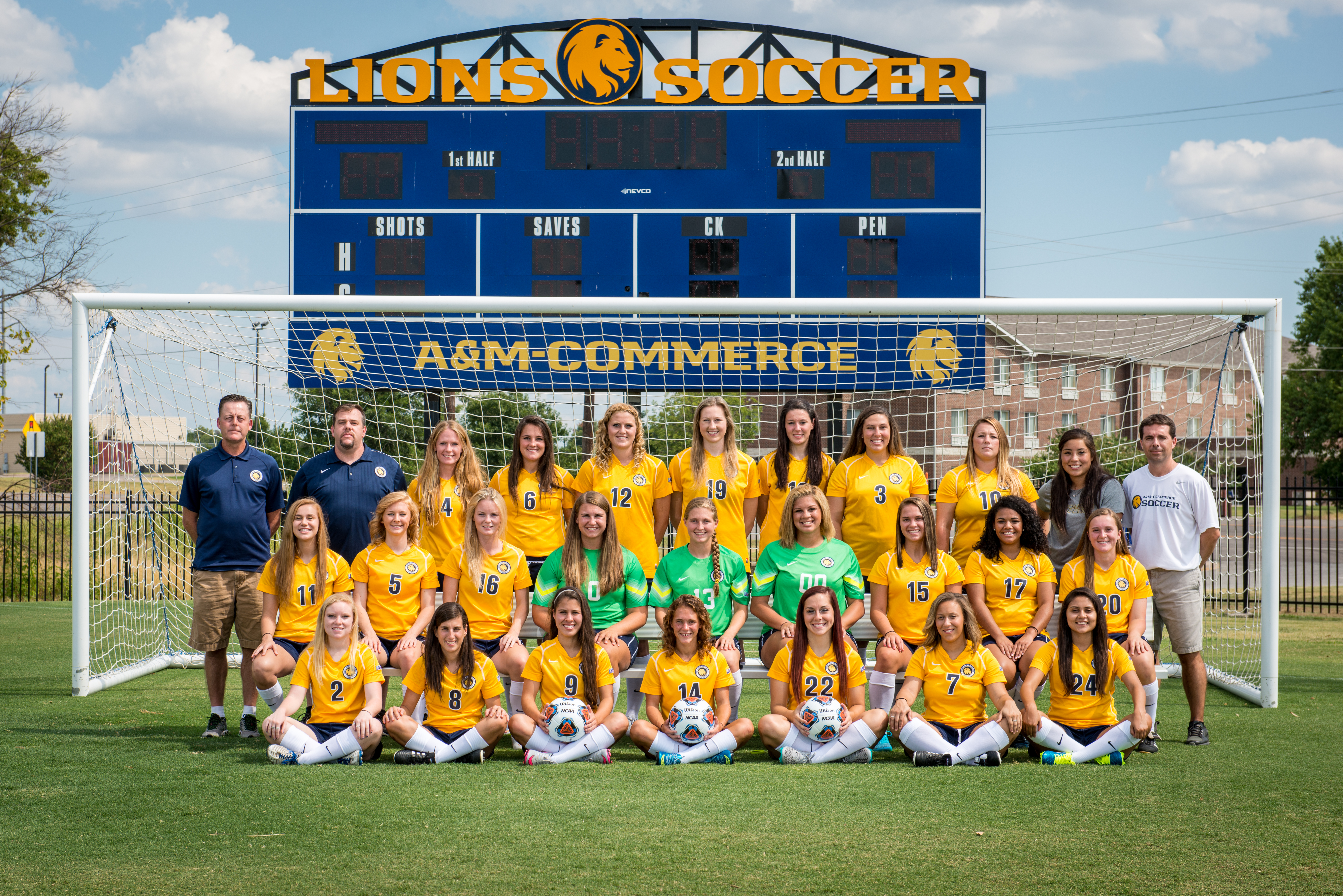 15328-Soccer Team 2015-0527 2015 Texas A&M–Commerce Lions women's soccer team